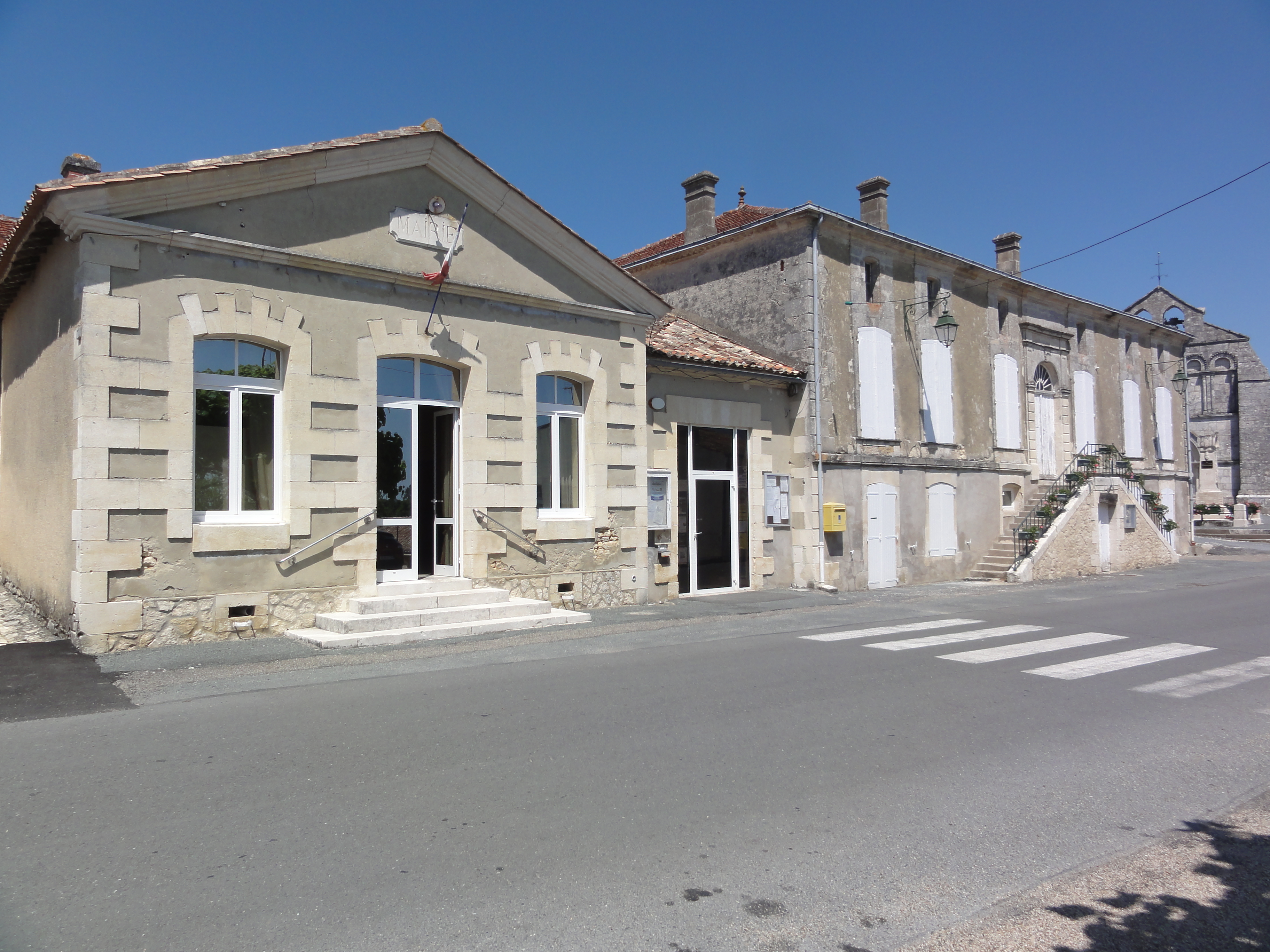 Saint-Palais (Gironde) mairie